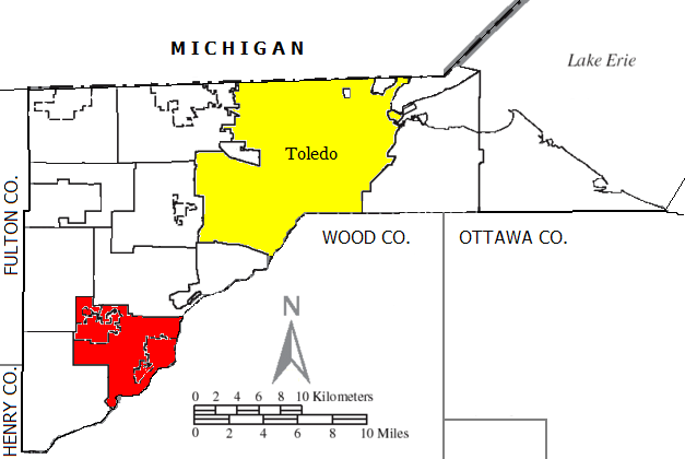 Made by the US Census and modified by myself